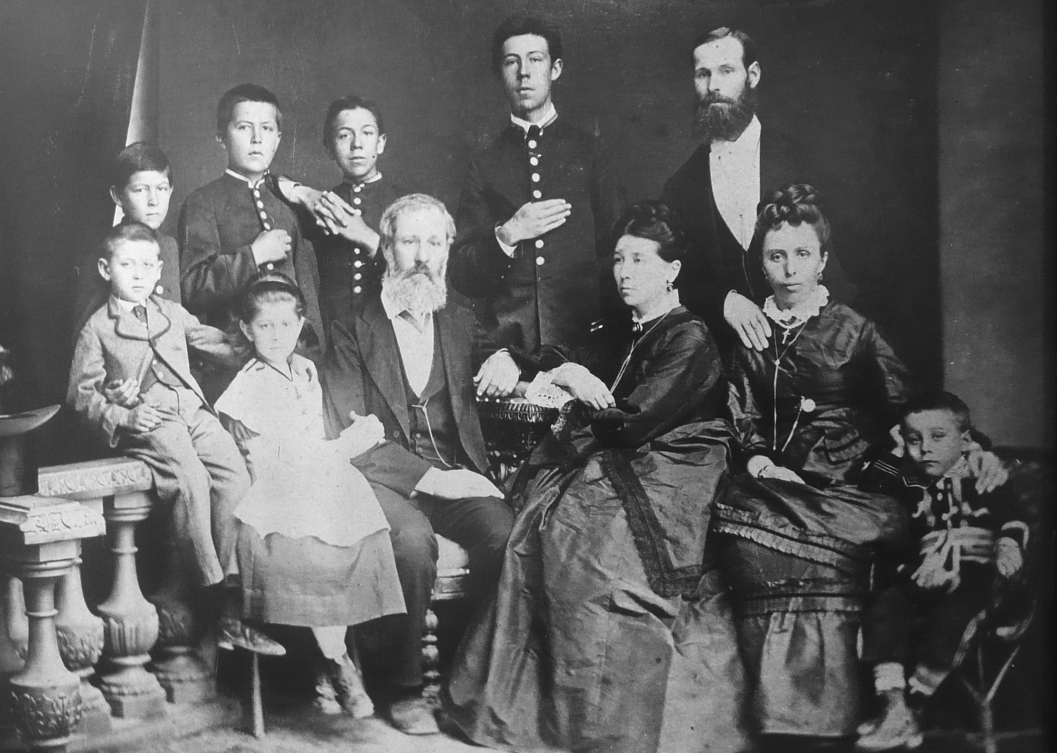 Chekhov with family, 1874 (Anton Chekhov is standing second from left); photo taken in the Chekhov museum in Badenweiler